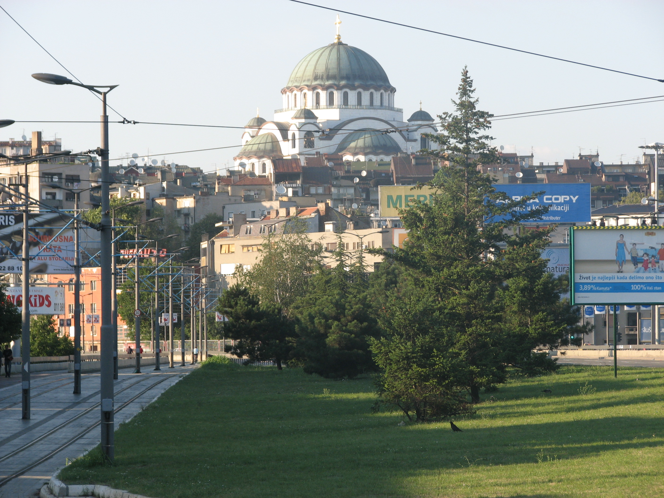 Saint Sava Temple, southern view from Autokomanda (Trg oslobodjenja)